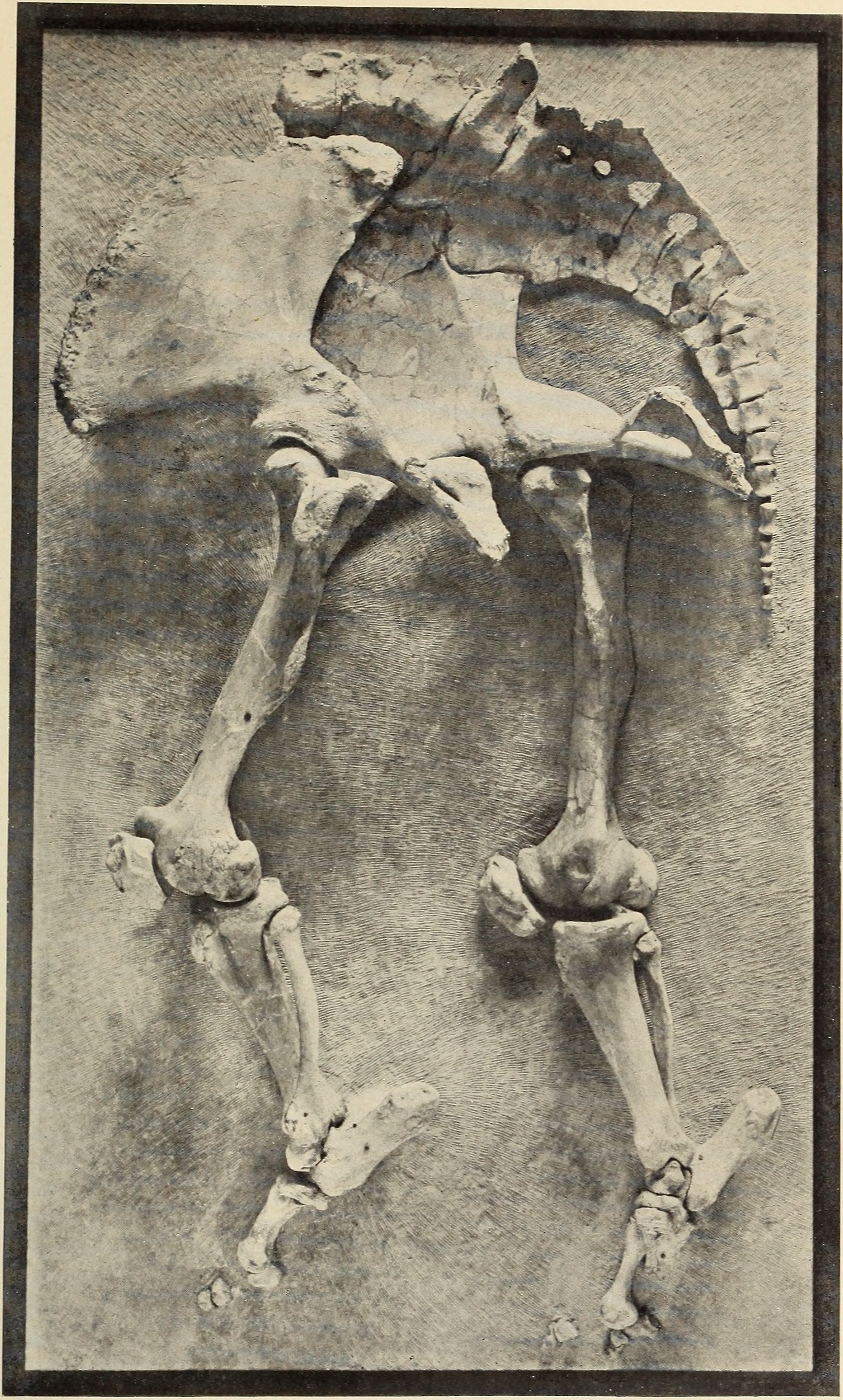 Title: Annual report of the Director to the Board of Trustees for the year .. Year: 1906 (1900s) Authors: Field Museum of Natural History Subjects: Field Museum of Natural History; Natural history Publisher: Chicago, U. S. A. : Field Museum of Natural History Text Appearing Before Image: FIELD MUSEUM OF NATURAL HISTORY. REPORTS, PLATE XL Text Appearing After Image: Posterior Half of a Skeleton of the Rare Oligocene Aquatic Rhinoceros, Metamynodon. Collected in South Dakota by Museum Expedition of 1905.